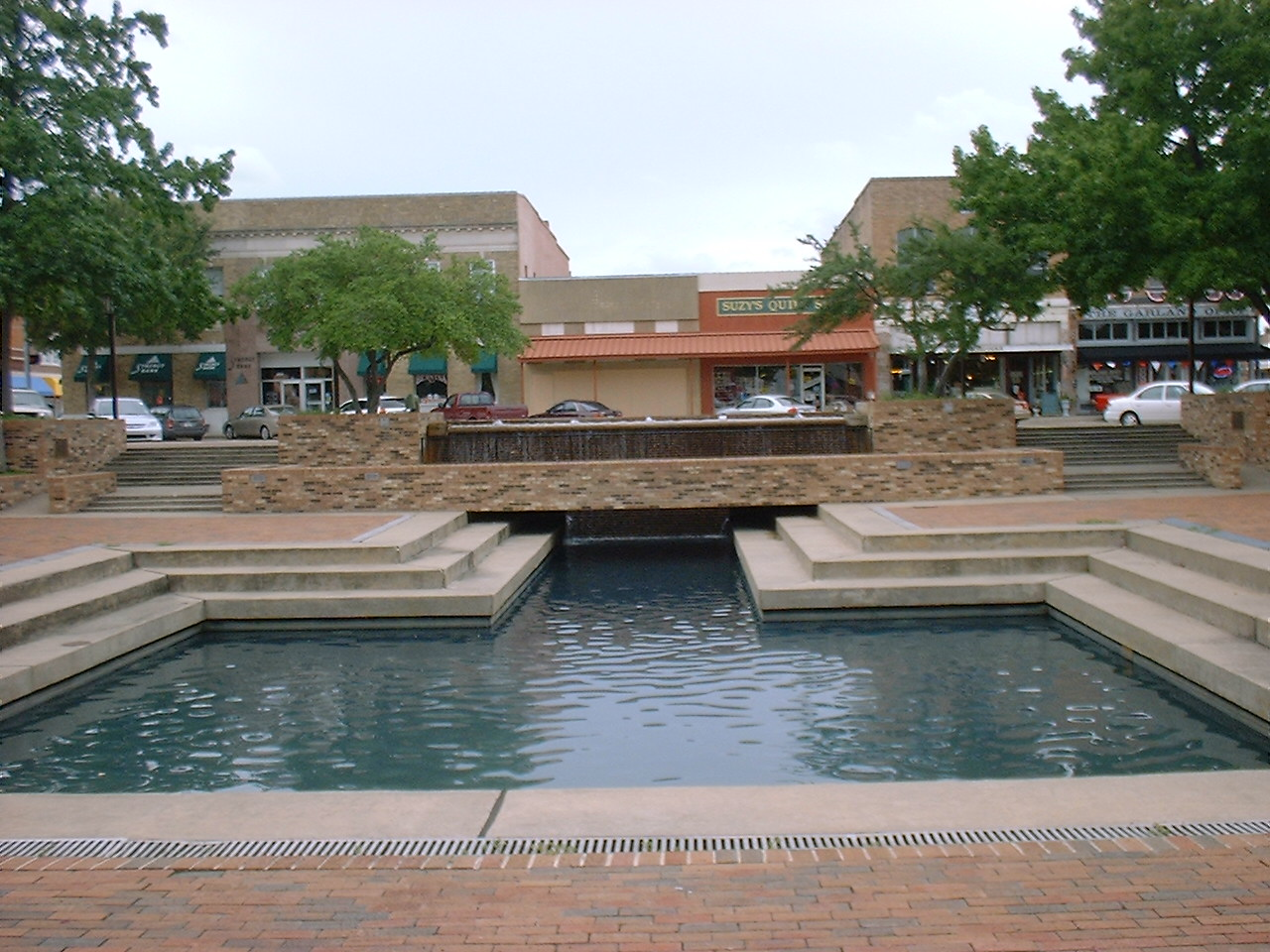 picture of the Historic Downtown Garland square